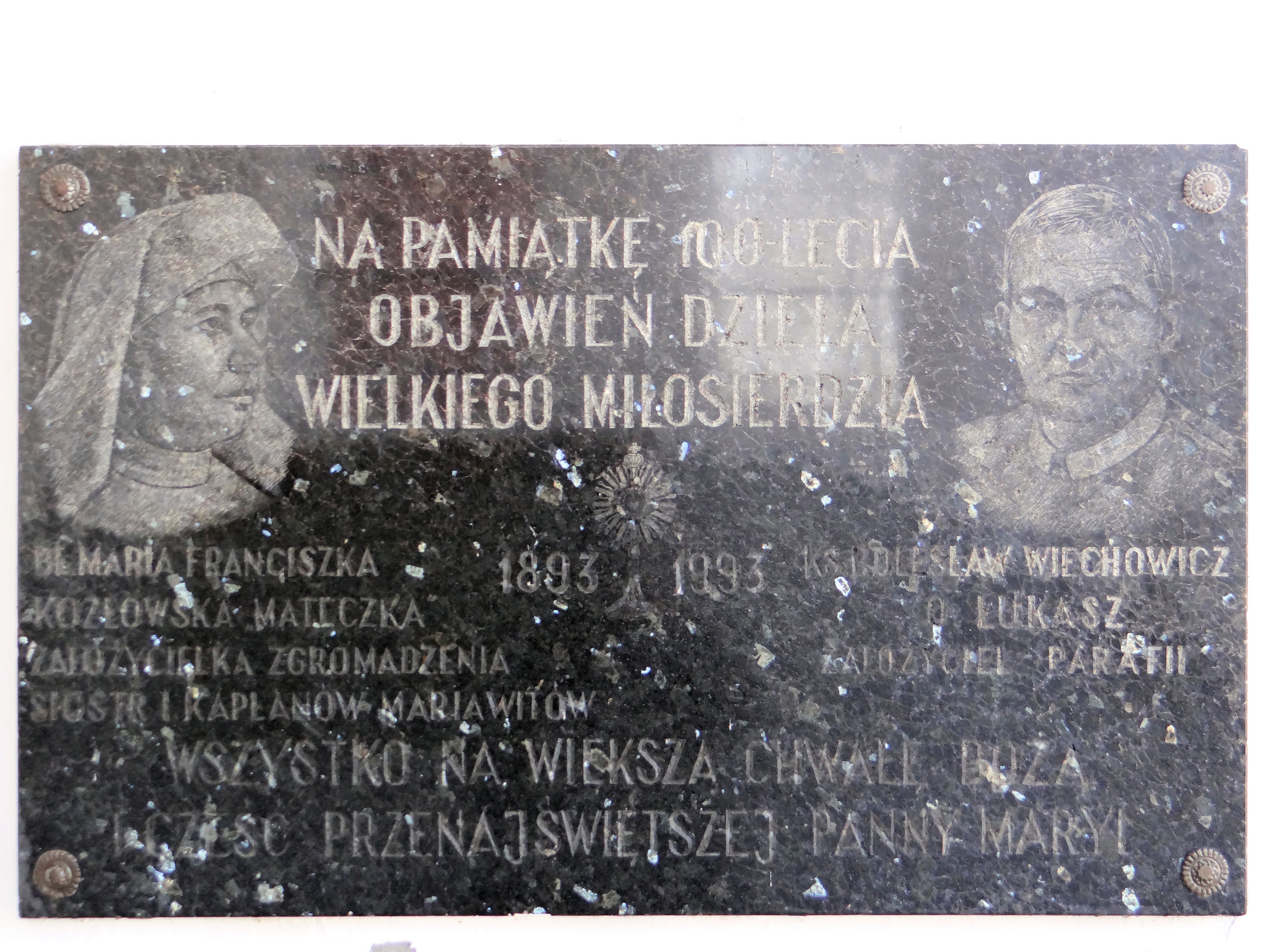 A plaque commemorating the work of Mother Kozłowskiej and Fr Boleslaw Wiechowskiego